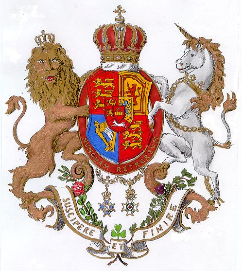 The coat of arms of the Kingdom of Hanover and the House of Hanover in 1837.